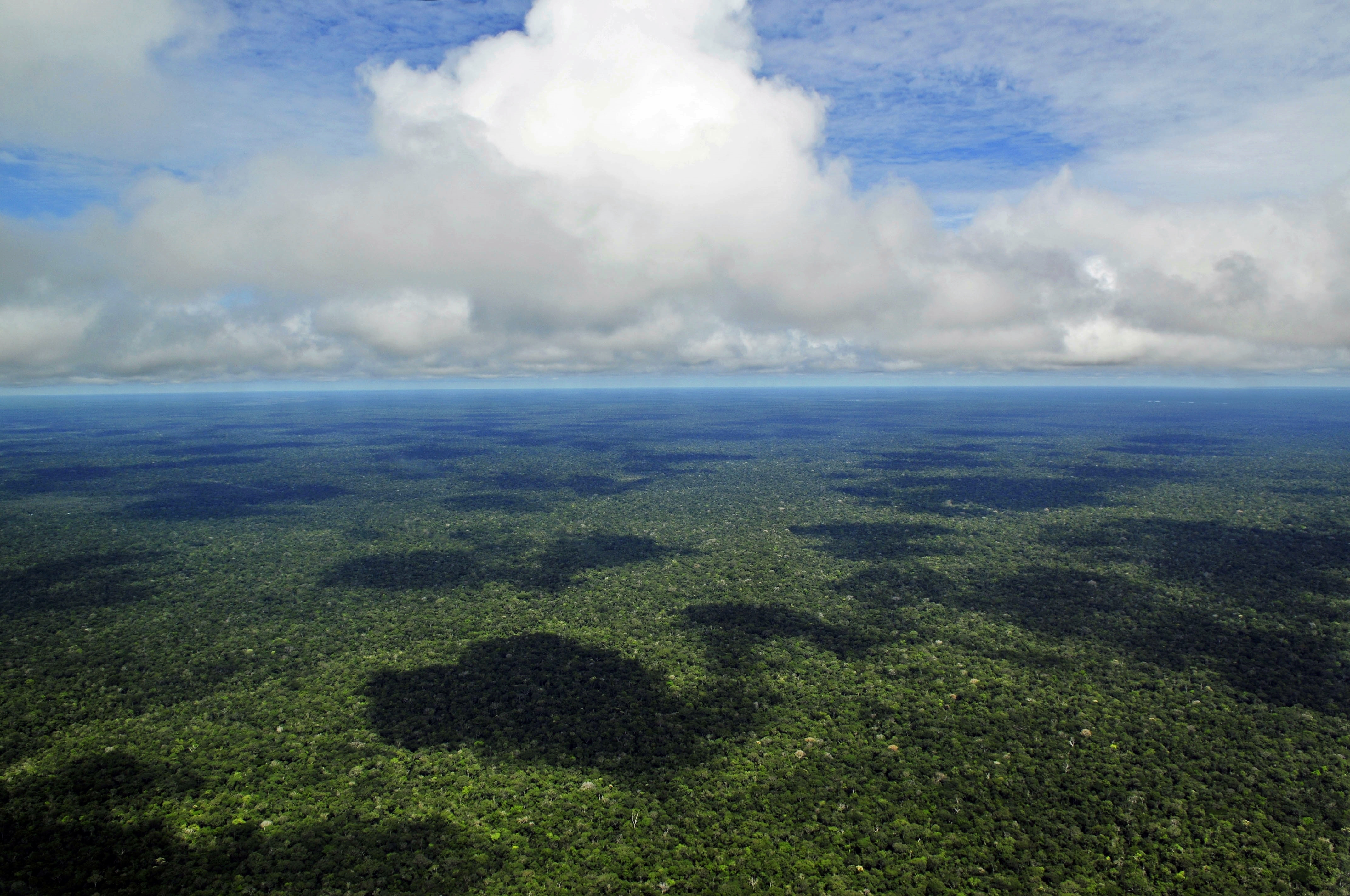 Aerial view of the Amazon Rainforest, near Manaus, the capital of the Brazilian state of Amazonas.